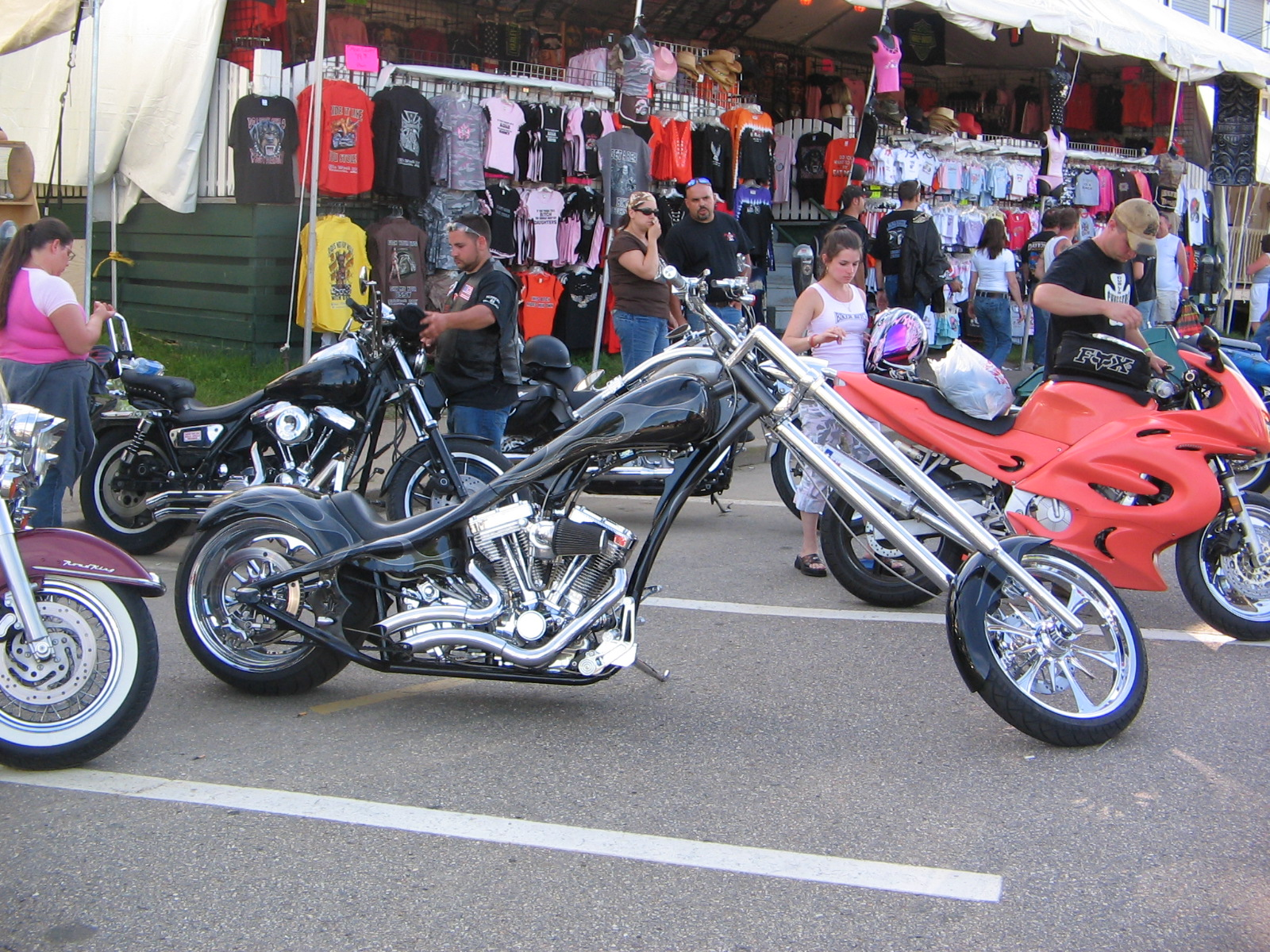 Chopper with long rake